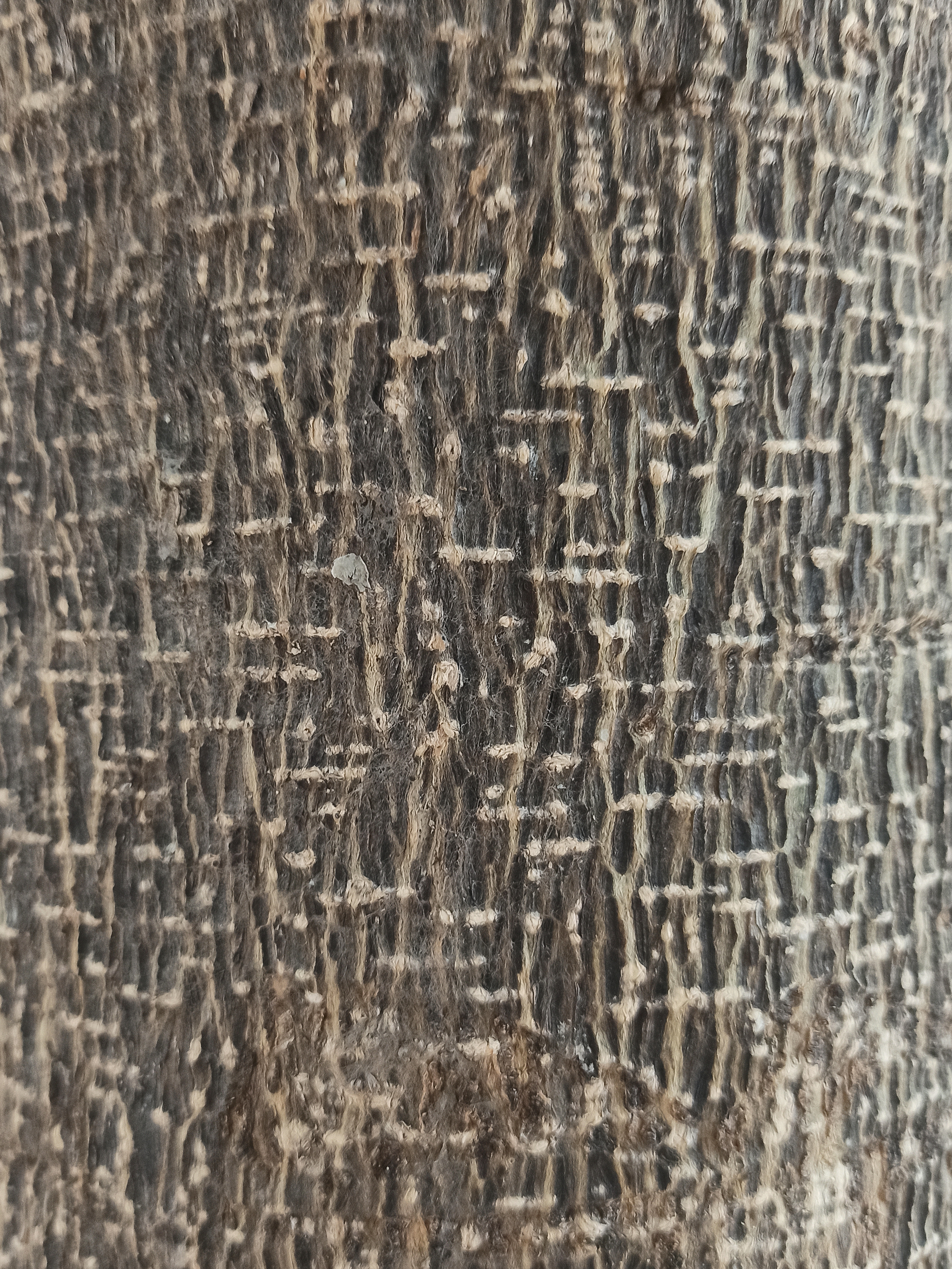 Bark of Casimiroa edulis (Family: Rutaceae).